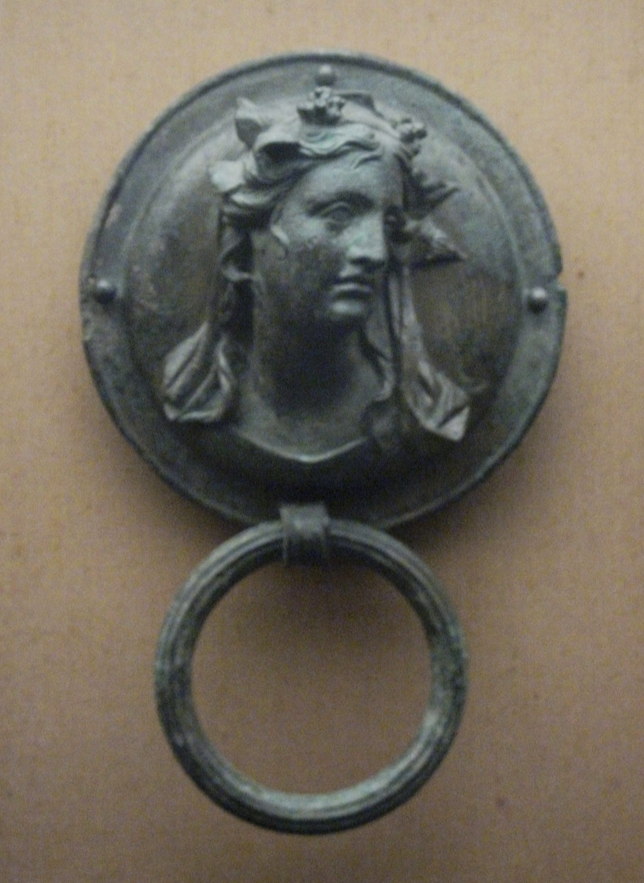 [ 1st century BC handle from a funerary chest, Waddesdon bequest, British Museum